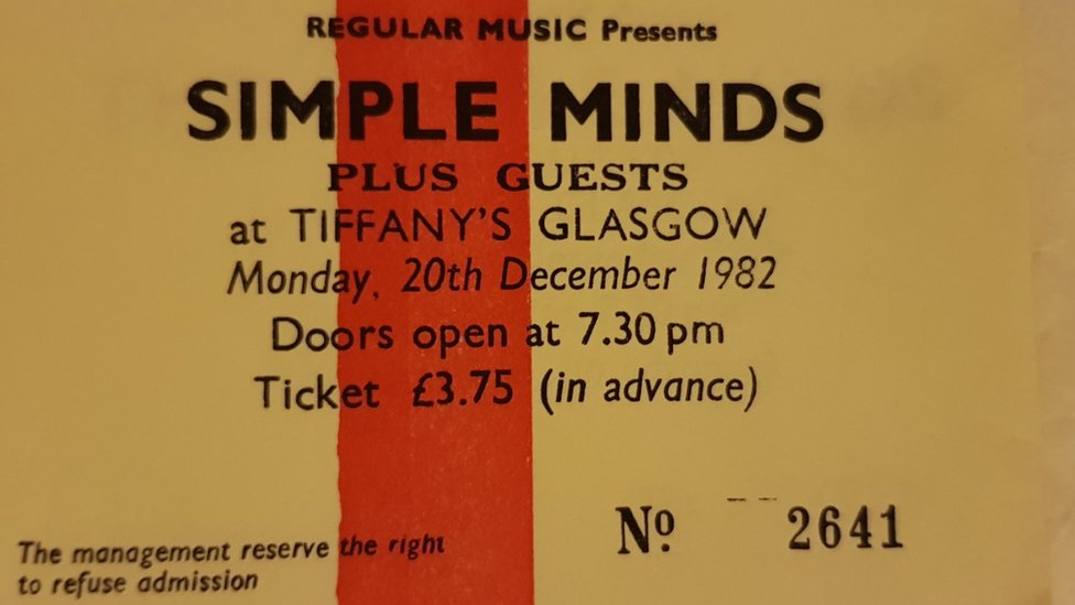 Ticket for a Simple Minds concert at Tiffany's Glasgow (image possibly cropped).